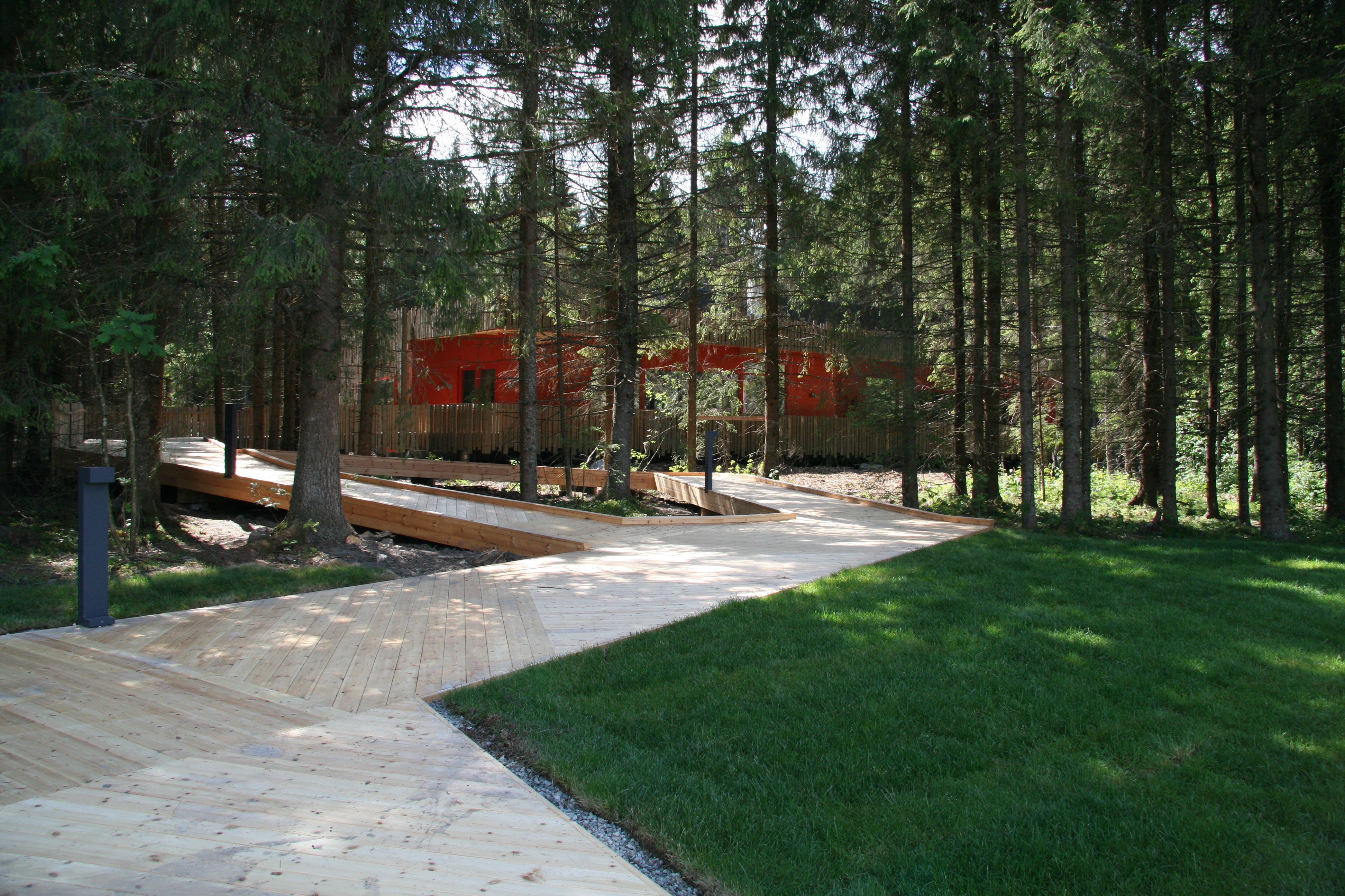 The new Prøysenhuset, museum to Alf Prøysen , in Ringsaker Norway